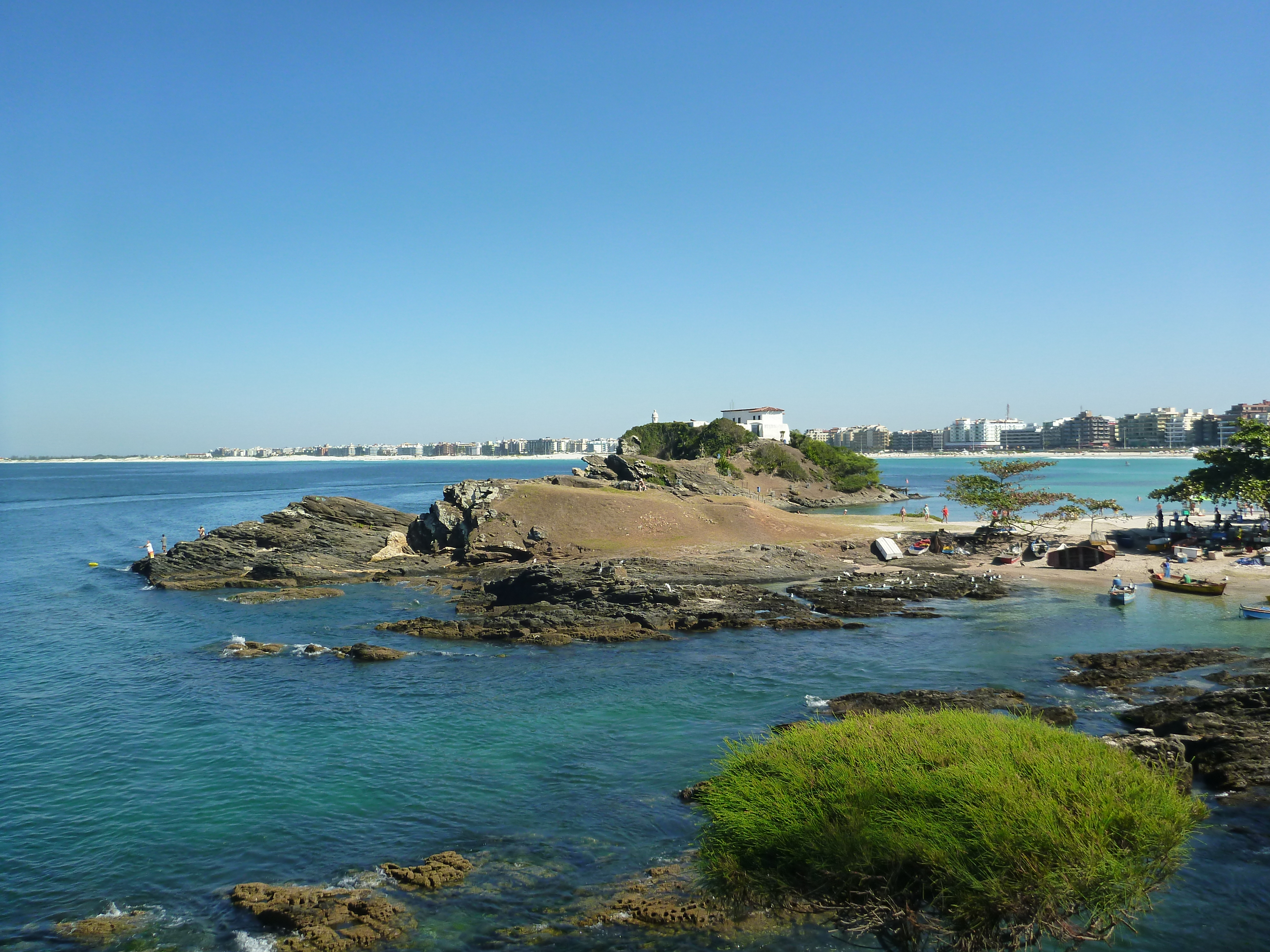 Mouth of Canal do Itajuru at Forte São Mateus in Cabo Frio